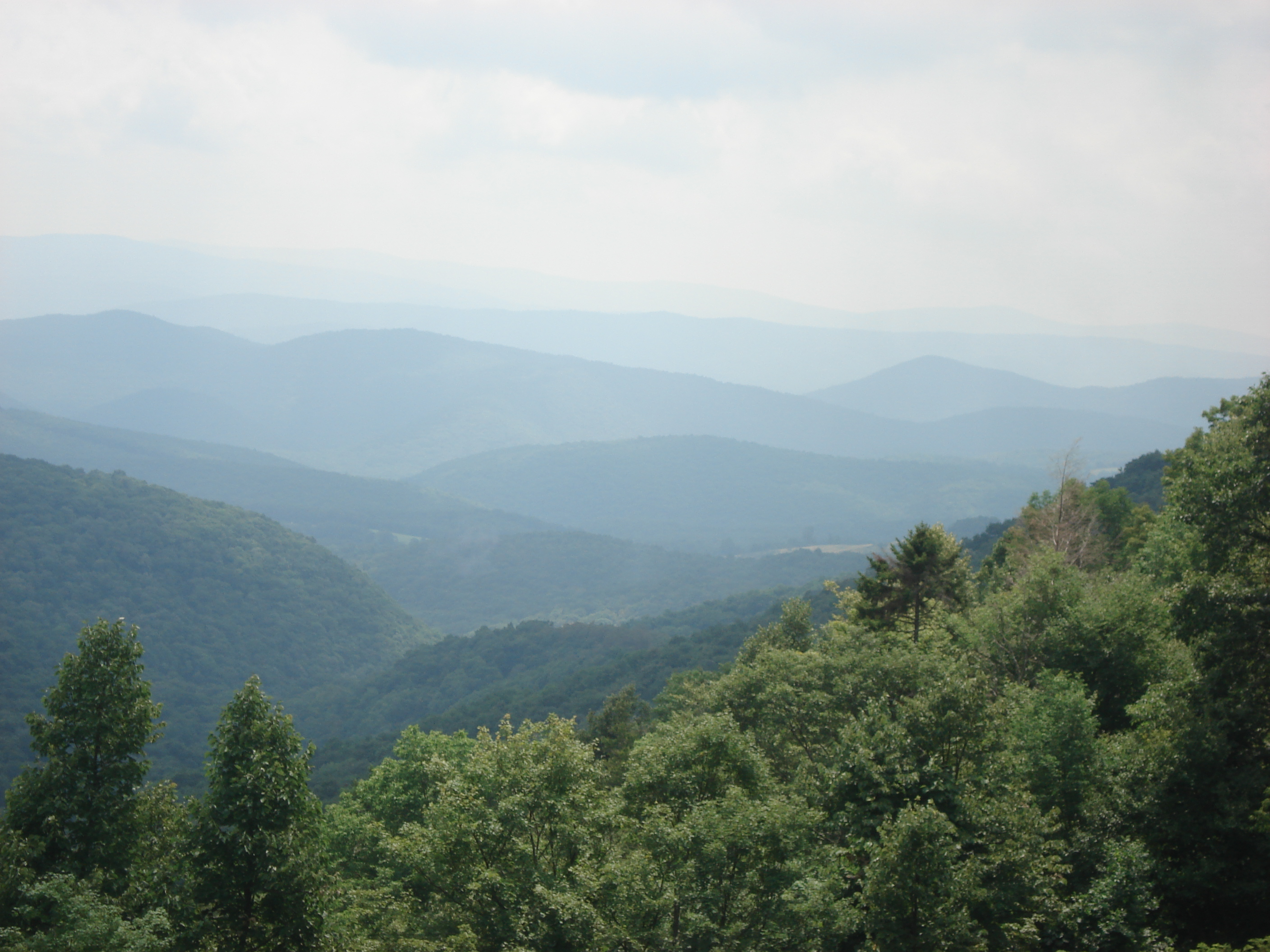 The Monongahela National Forest; photo taken from slopes of Back Allegheny Mountain looking east